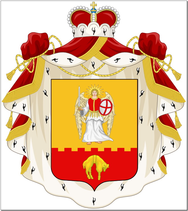 The Amilakhvari family coat of arms Designed in the 19th century - historical COA